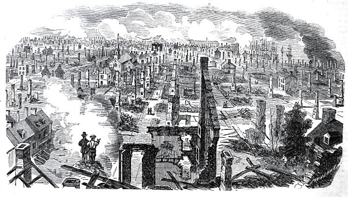 Engraving, Sketch of the Burnt District, John Henry Walker (1831-1899) 1866, Ink on newsprint - Wood engraving, 29 x 21.9 cm